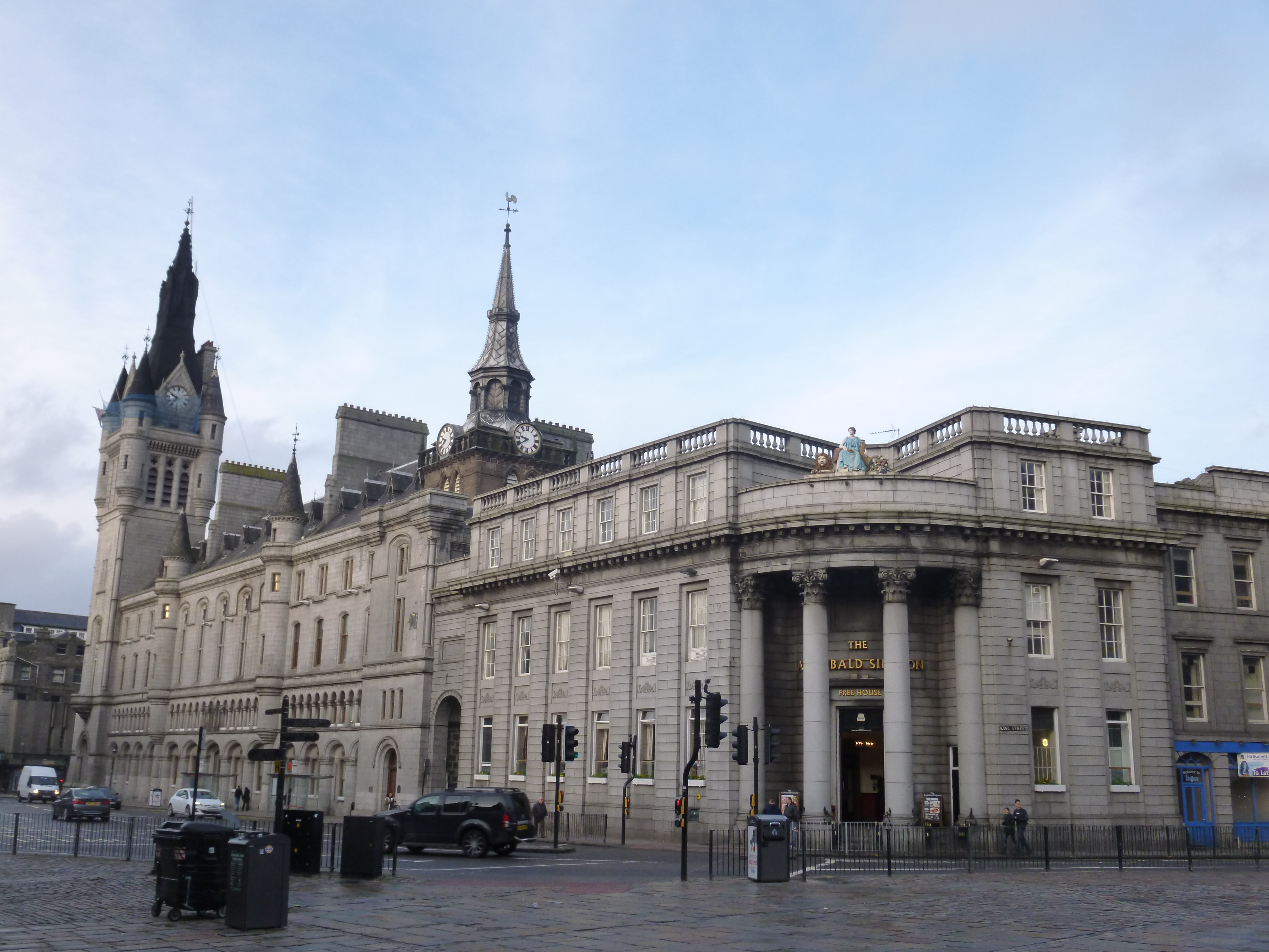 Town House, Sheriff Court and North of Scotland Bank, Aberdeen